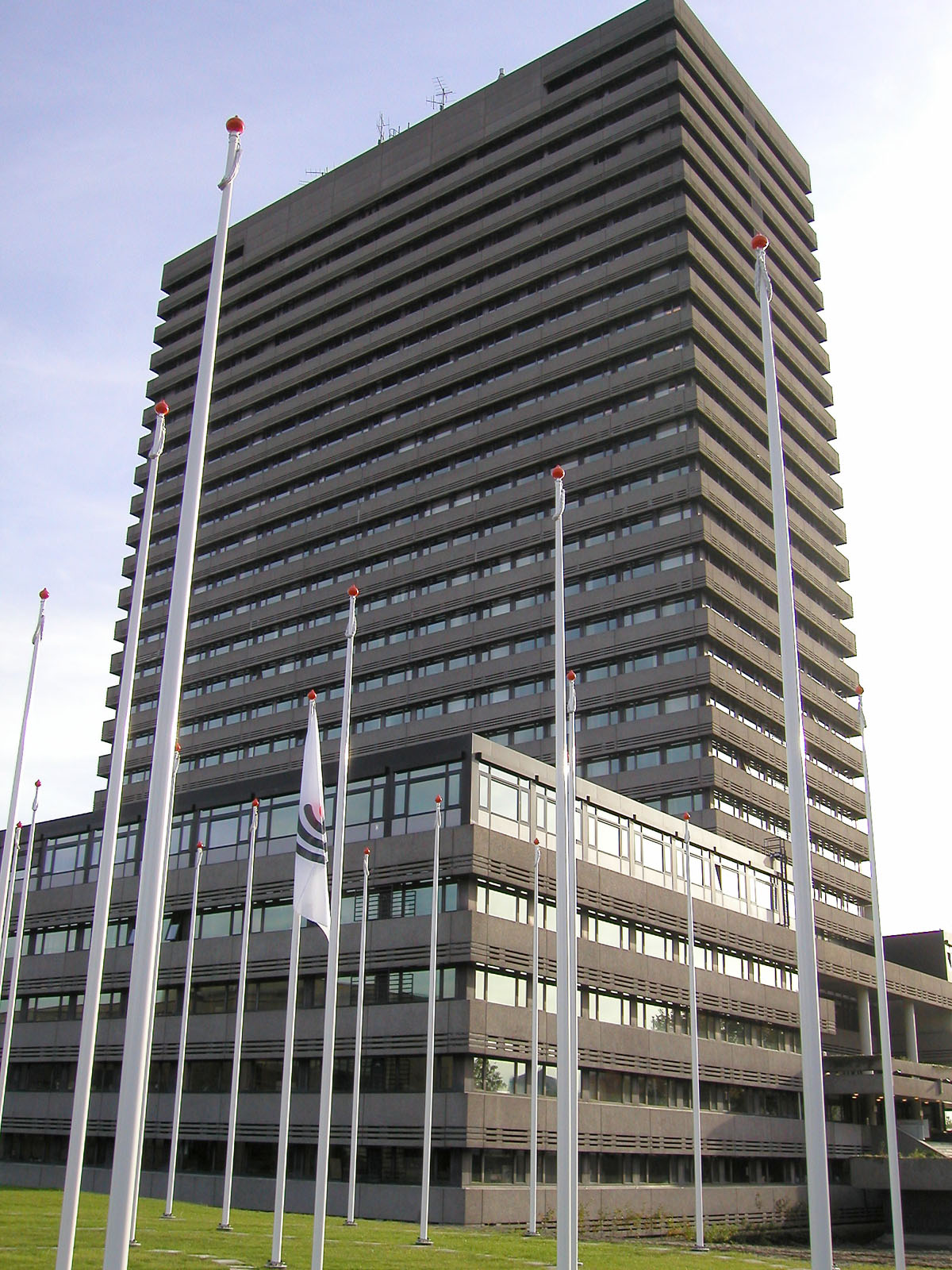 European Patent Office (EPO) - The Hague Office